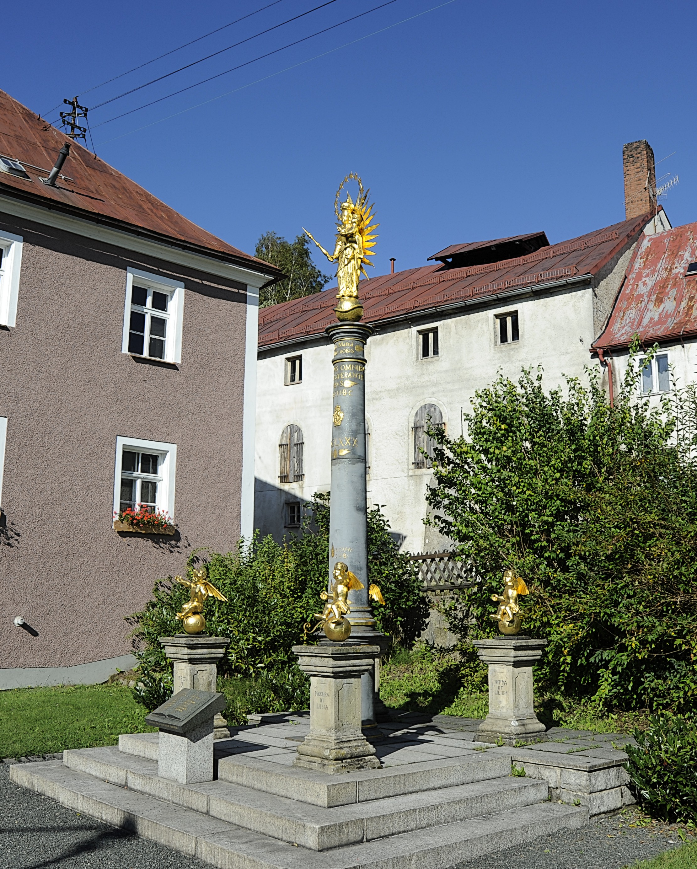 Marian column in Fichtelberg (Germany, Bavaria) with Marian sculpture and 4 putti, 1680